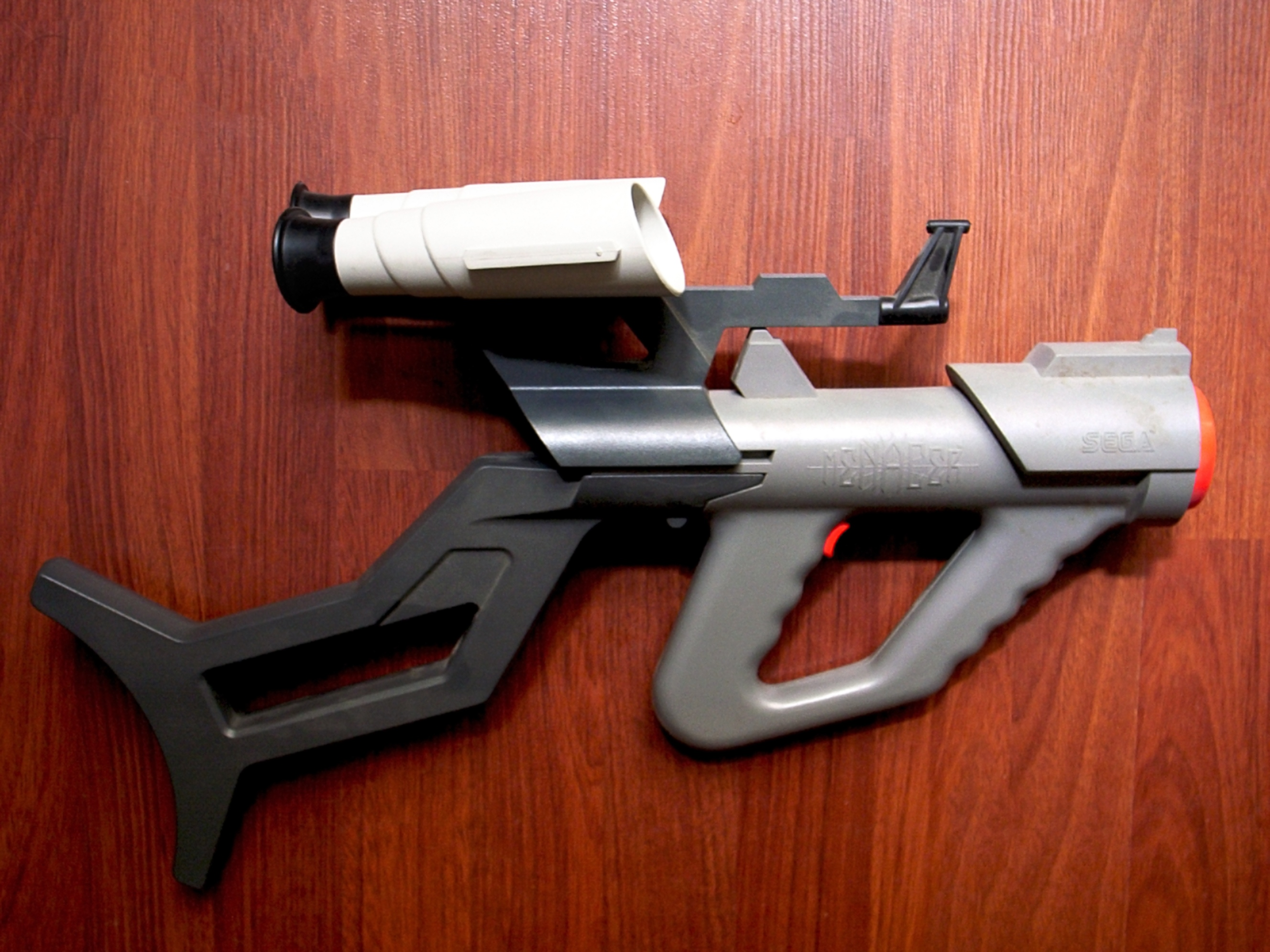 Retouched and cropped version of File:Sega Menacer (2321760719).jpg